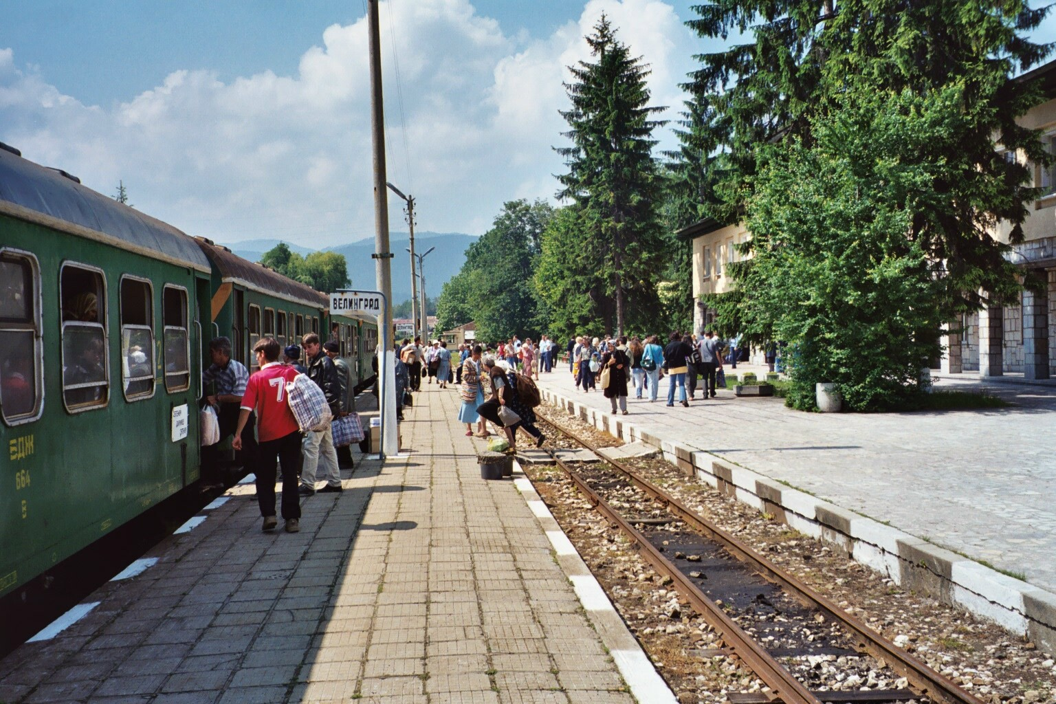 Velingrad railway station in Bulgaria